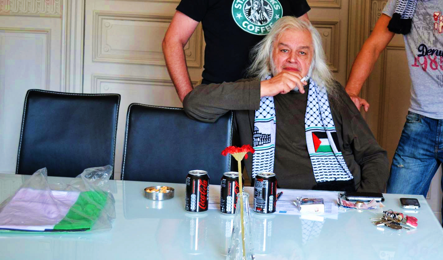 Jean Pierre Van Rossem bij Partij Bureau Rossem in Hoegaarden 2014